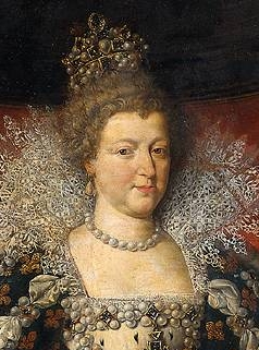 Portrait of Maria de' Medici in full regalia. She was the wife of Henry IV of France. Copy of the version in the Louvre, Paris. (see File:Frans Pourbus (II) 007.jpg).